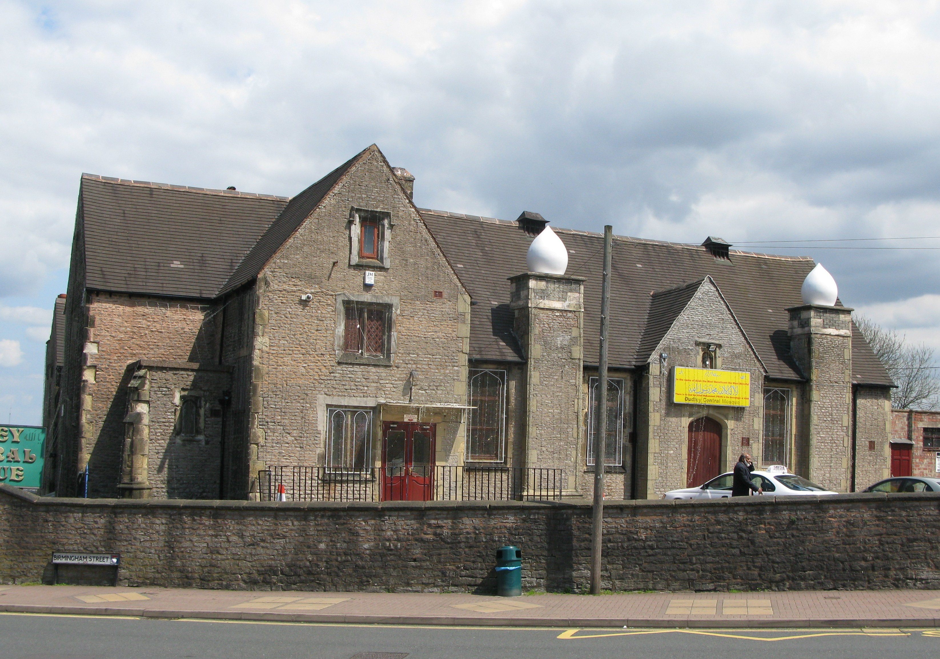 Grade II